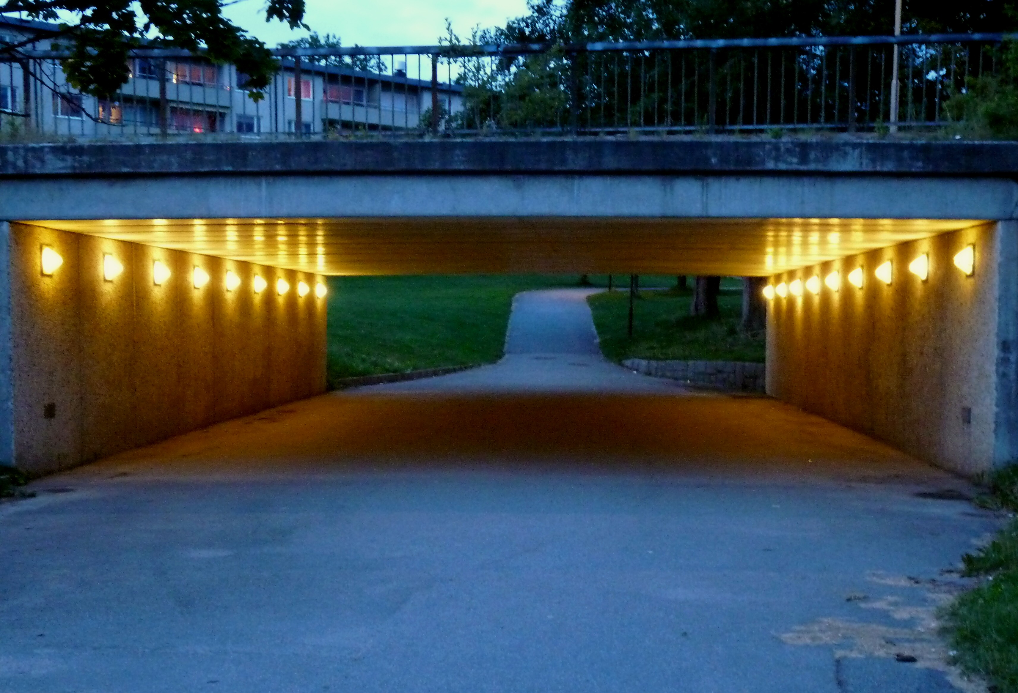 Bjorksatravagen tunnel in Stockholm